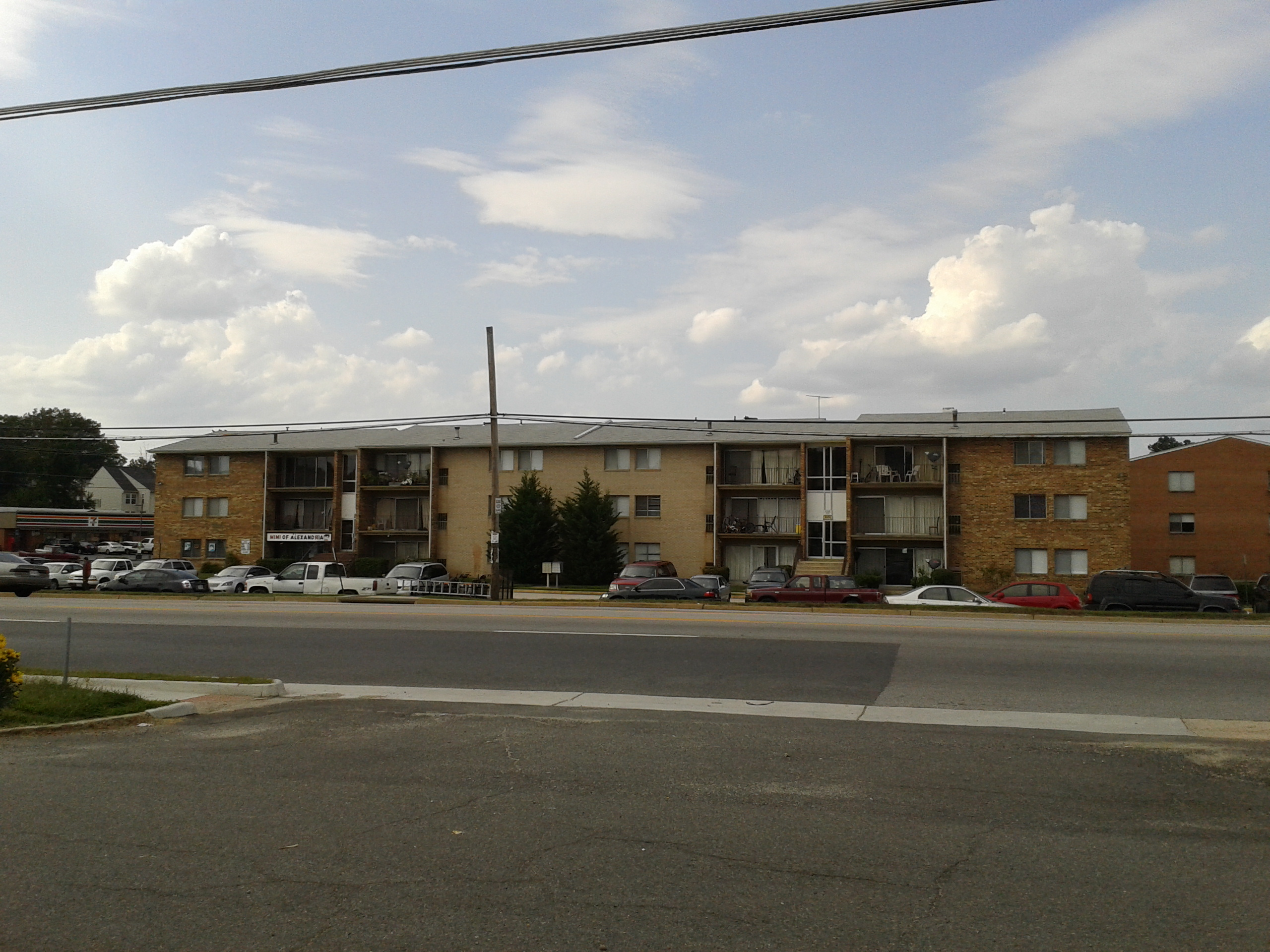 low income apartment complex, typical of those found in the route 1 corridor, Fairfax County, Virginia